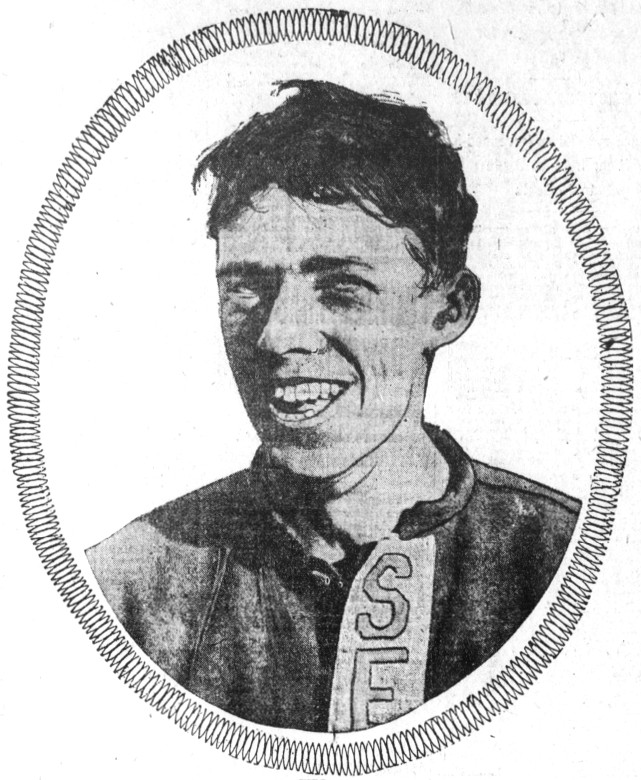 Professional baseball player Ossie Vitt